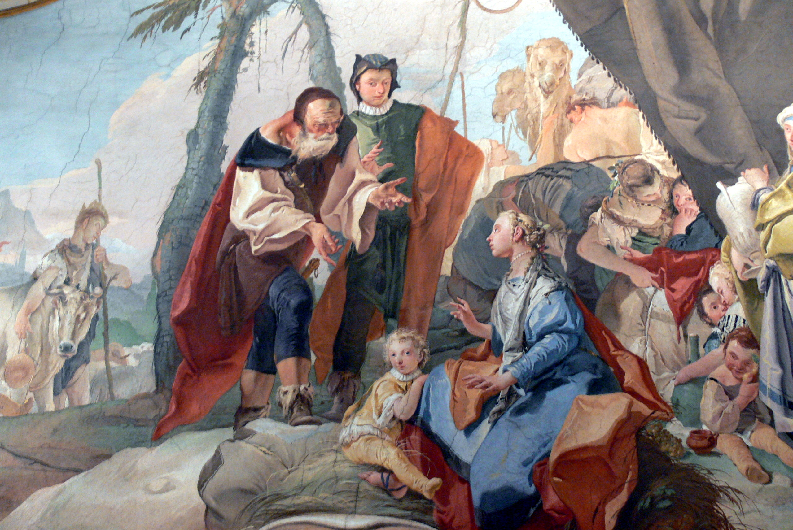 Udine, Italy. Palazzo Patriarcale - Galleria del Tiepolo: "Laban is looking for idols" by Giovanni Battista Tiepolo.